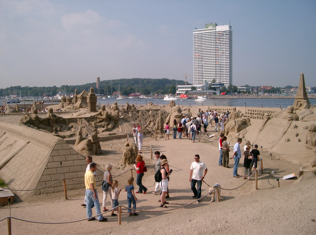 Sand Art at Sand World Festival 2004